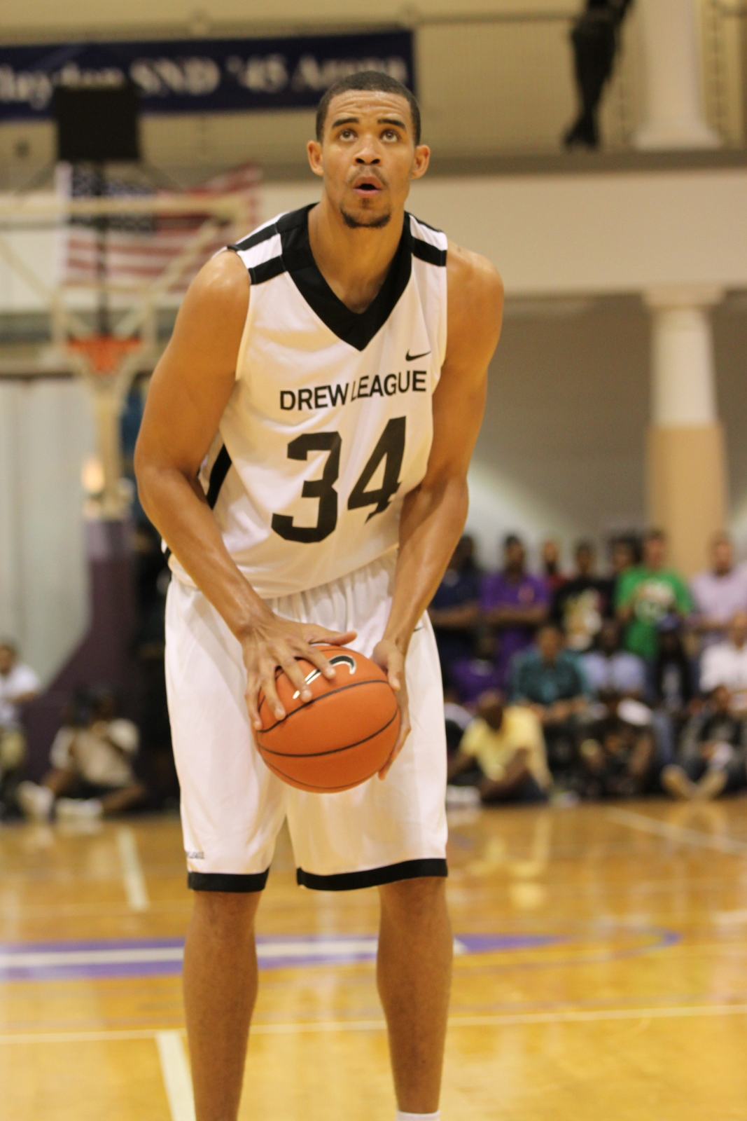 JaVale McGee of the Drew League